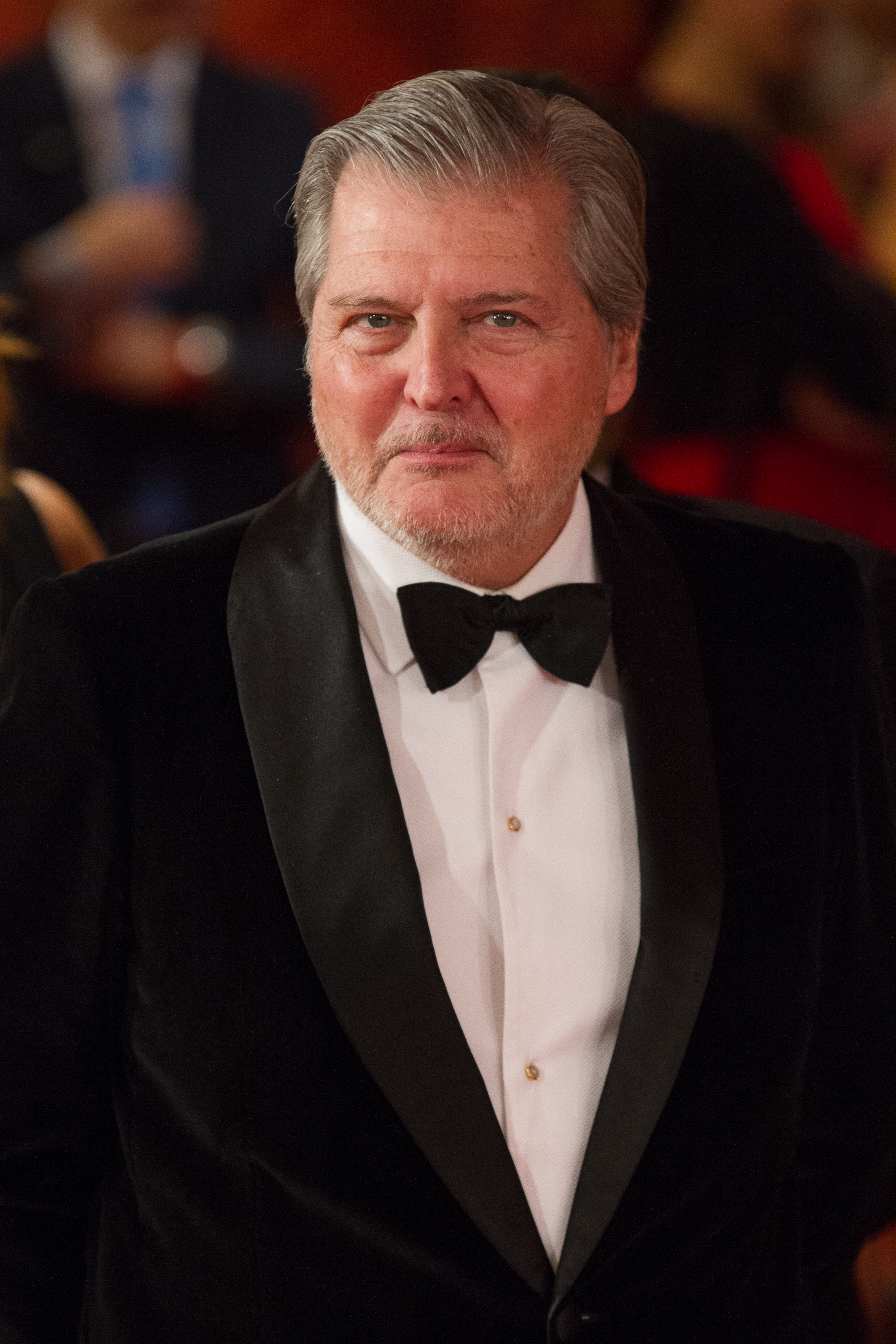 Íñigo Méndez de Vigo, Minister of Education, Culture and Sport of Spain, at the 32nd Goya Awards, 2018.